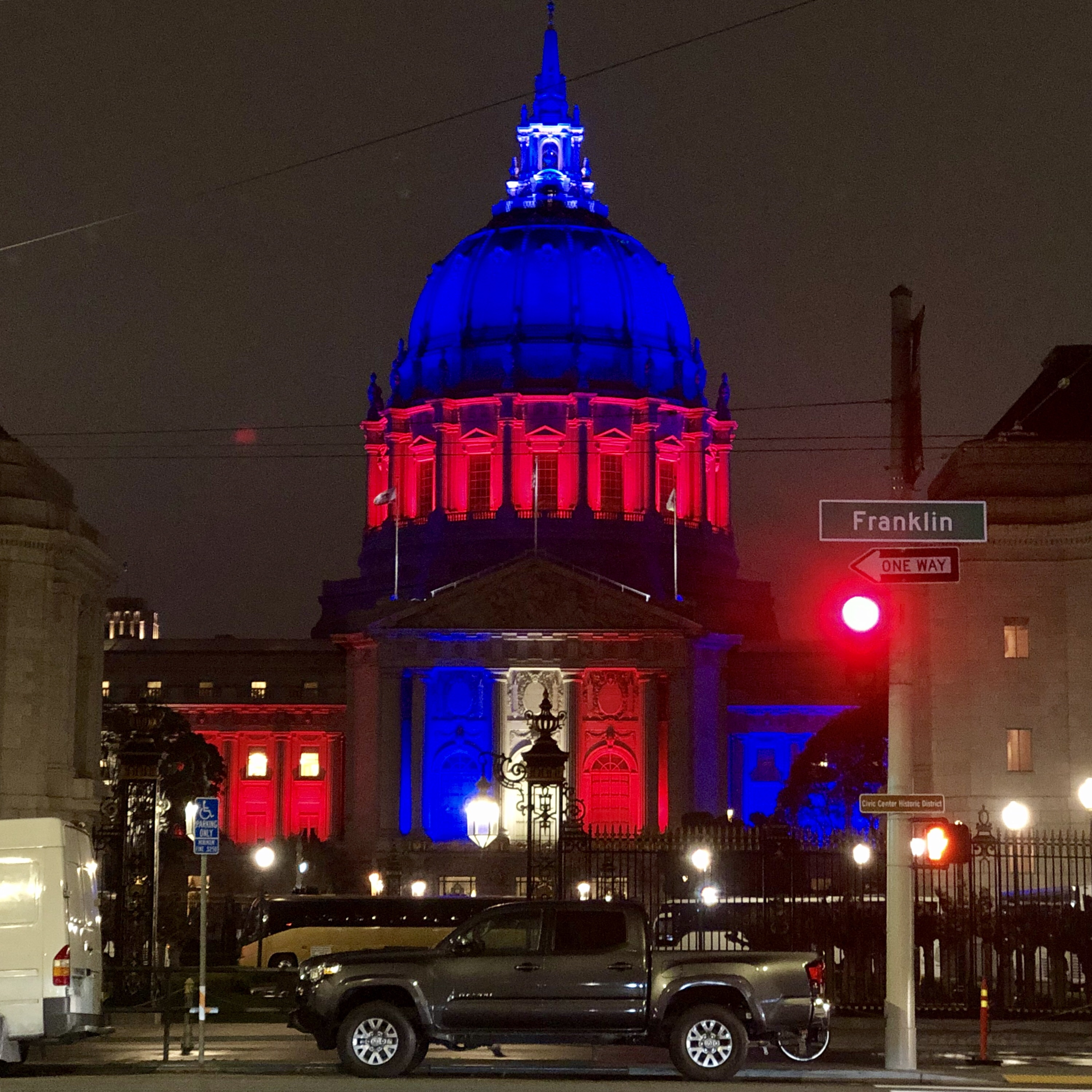 San Francisco City Hall showing solidarity with Paris after Notre Dame fire